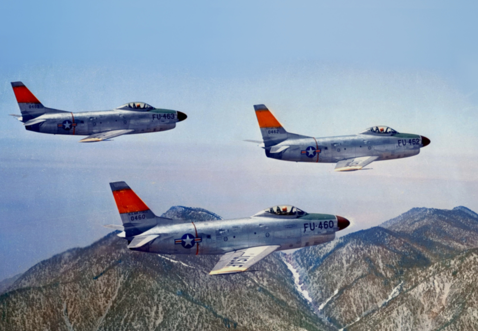 Three U.S. Air Force North American F-86D-1-NA Sabre fighters (s/n 50-460, 50-462, 50-463) in flight.